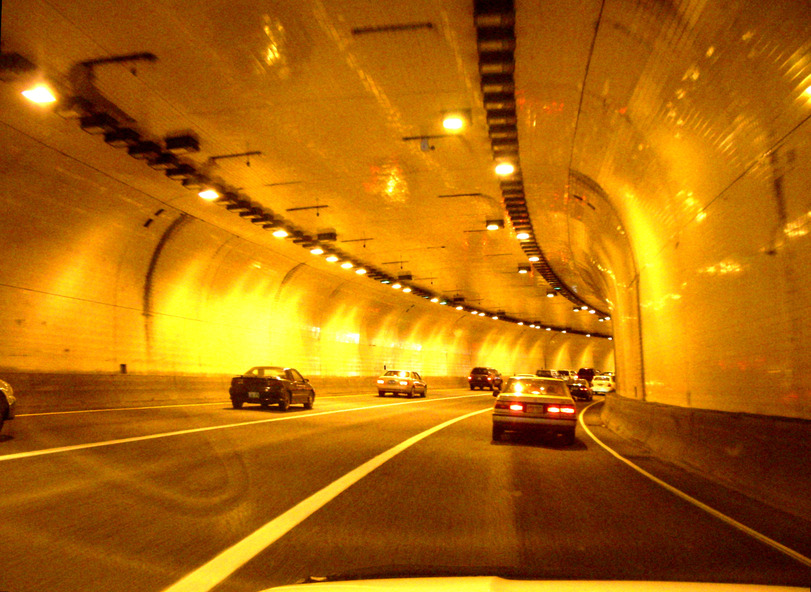 The eastbound midsection of the Vista Ridge Tunnels which carries Sunset Highway through Vista Ridge. The road slopes steeply downhill to downtown Portland, and is noticeably banked for the obvious curve. This photo was taken mid afternoon with the sun behind the camera, but the curvature and length of the tunnel warrants streetlights at all hours for illumination.